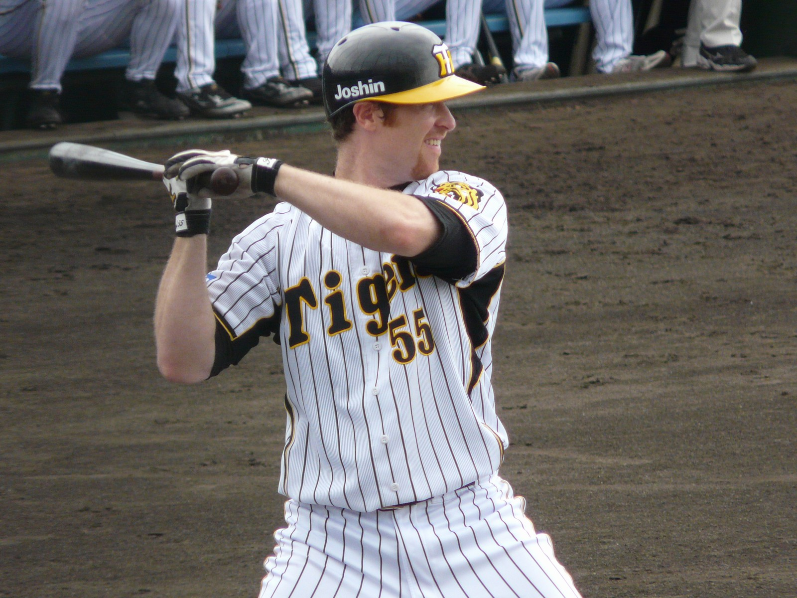 Copied from 画像:HT-Lewis-Ford.jpg: "ルー・フォード"